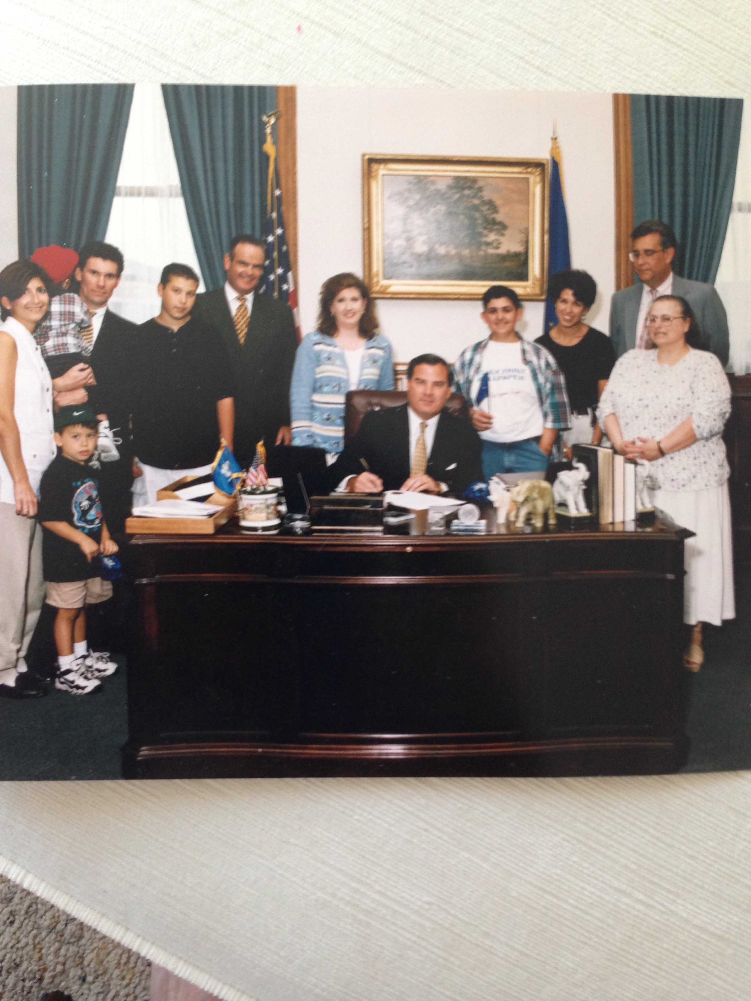 Families of children with cancer joined then Governor John Rowland of CT as he signed the Proclaimation declaring September Childhood Cancer Awareness Month in 1998